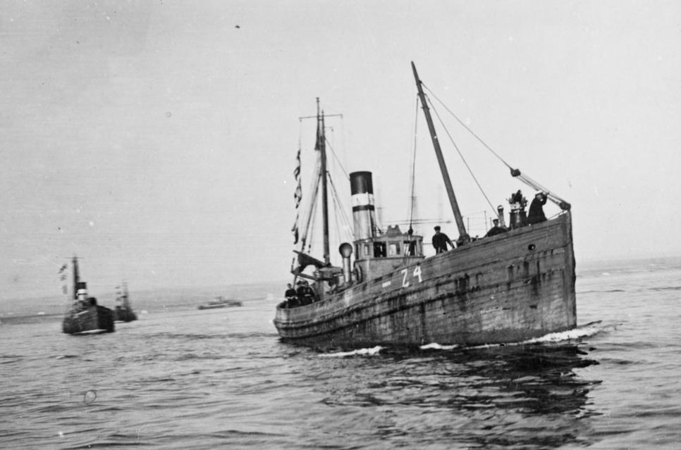 British drifters leaving their base in the Adriatic for stations on the Otranto Barrage